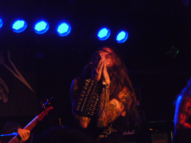 Chance Garnett of Skeletonwitch live 2010 at the Kleine Klub (Saarbrücken)